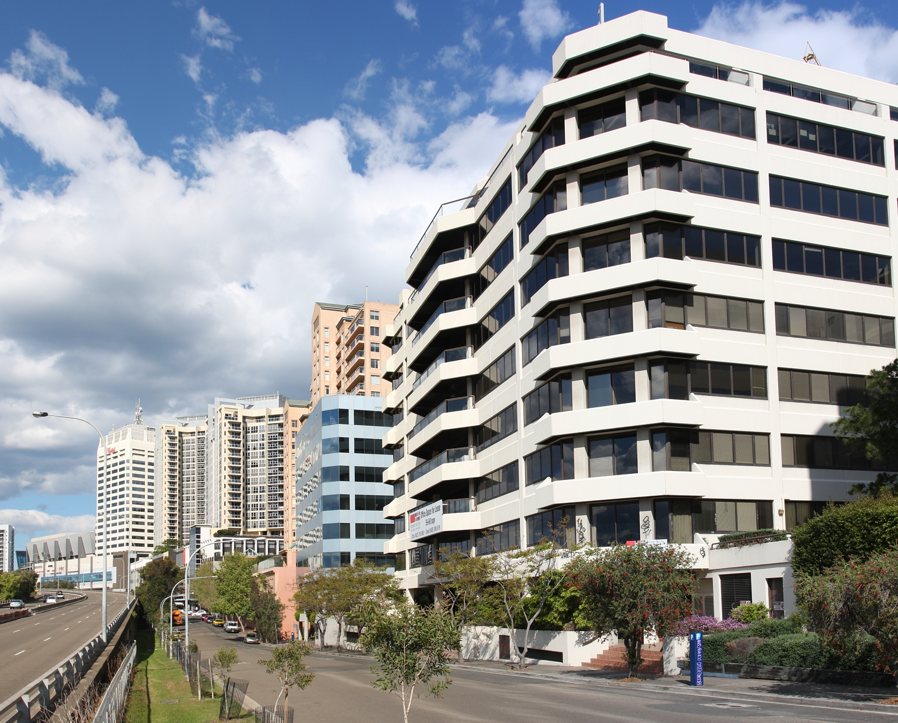 Bondi Junction, New South Wales